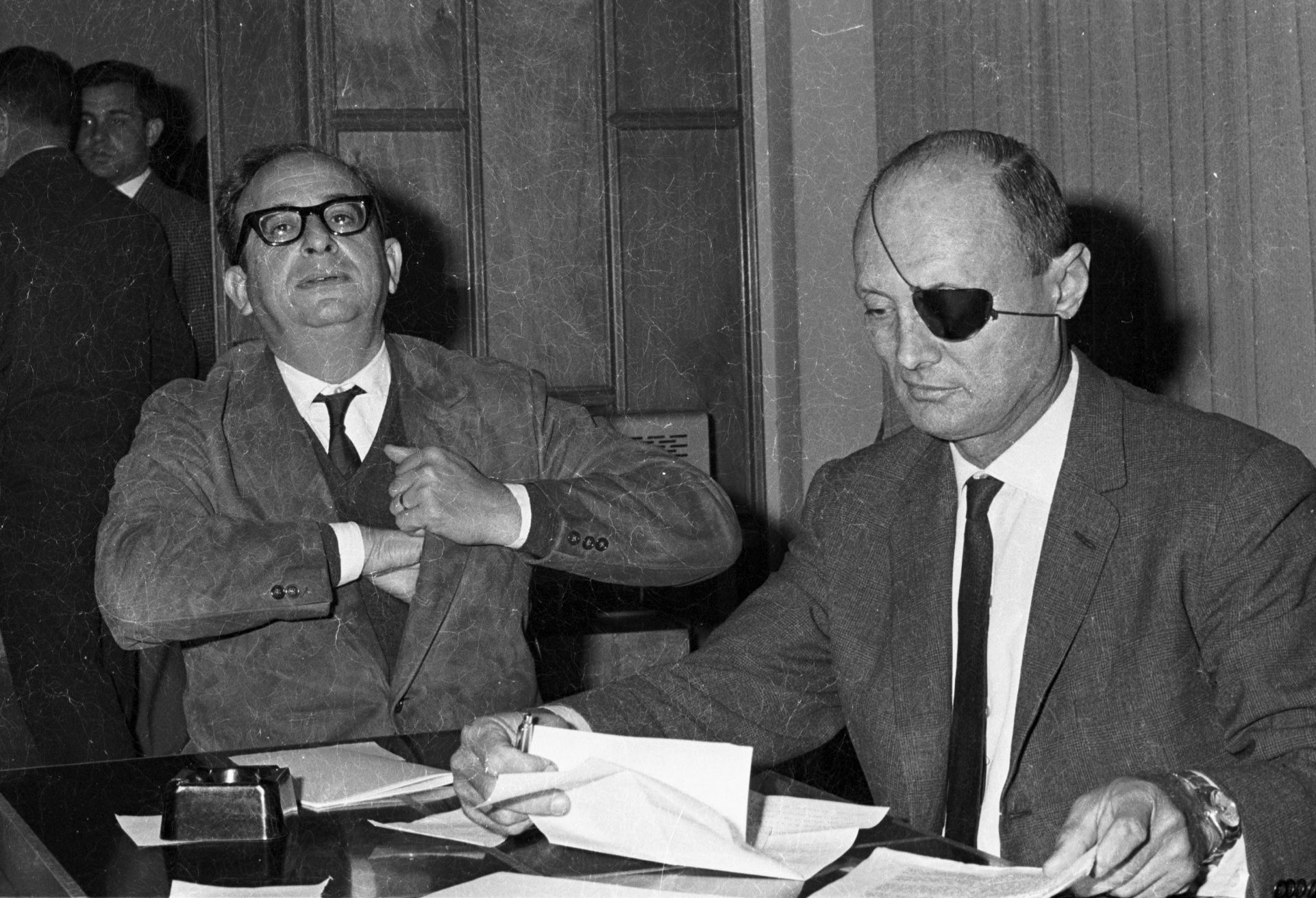 Minister Moshe Dayan with Yitzhak Navon at the first Rafi Party convention